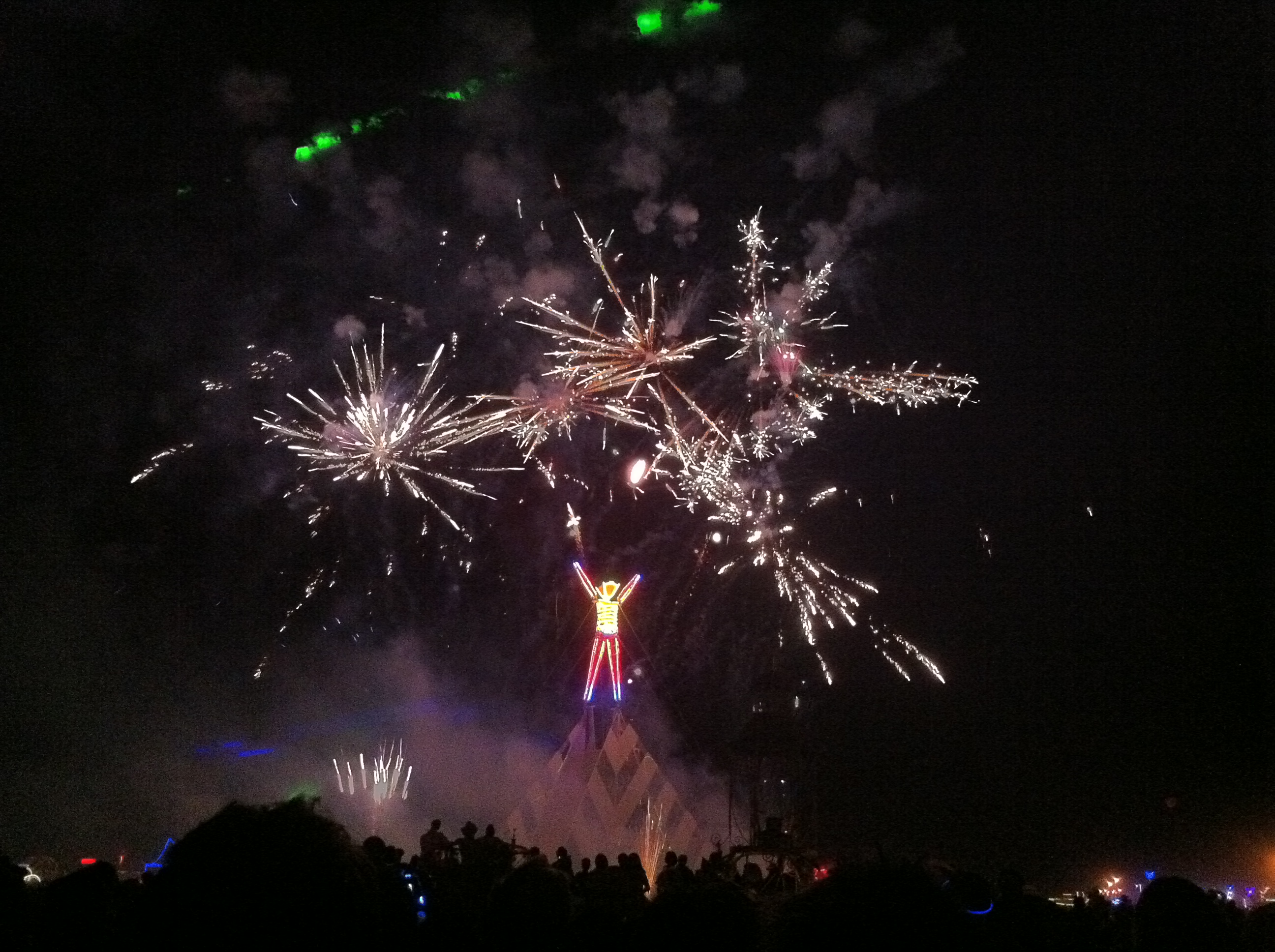 Burning Man 2011 Shot by Victor Grigas